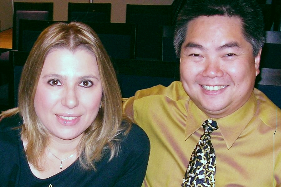 Susan Polgar and husband Paul Truong, Chess Olympiad 2008, Photographer Gerhard Hund.